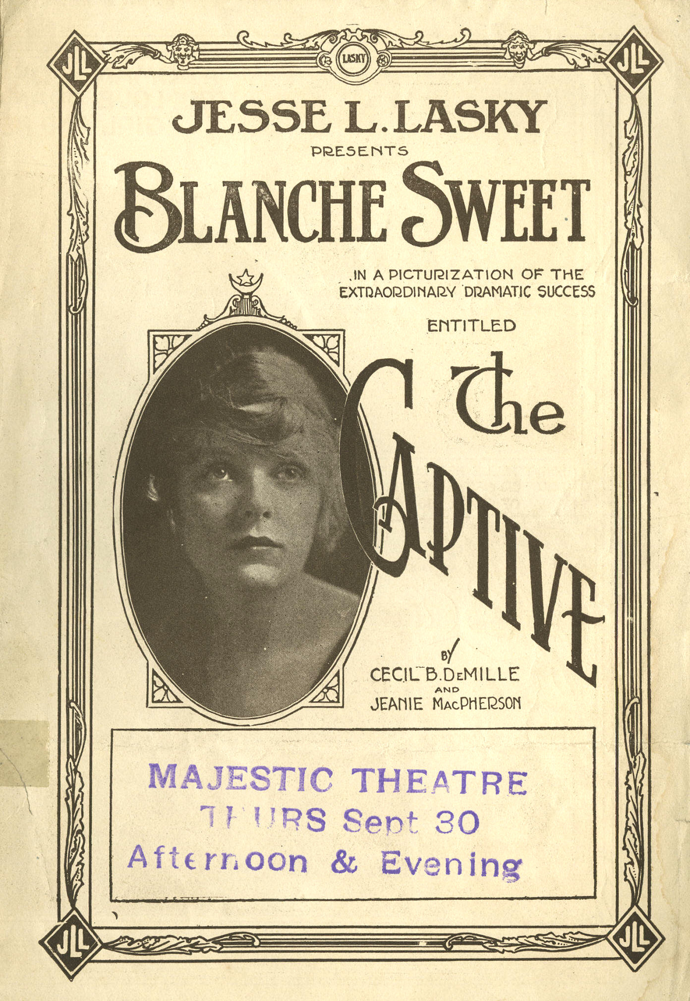 From the American film The Captive (1915).